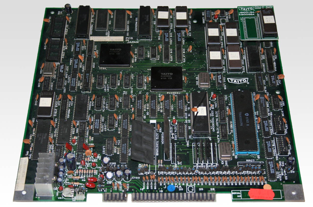 Photo of Rainbow Islands arcade PCB